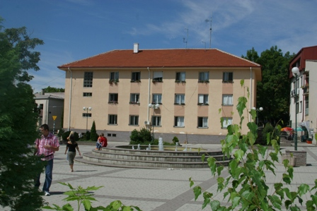 Probistip town hall